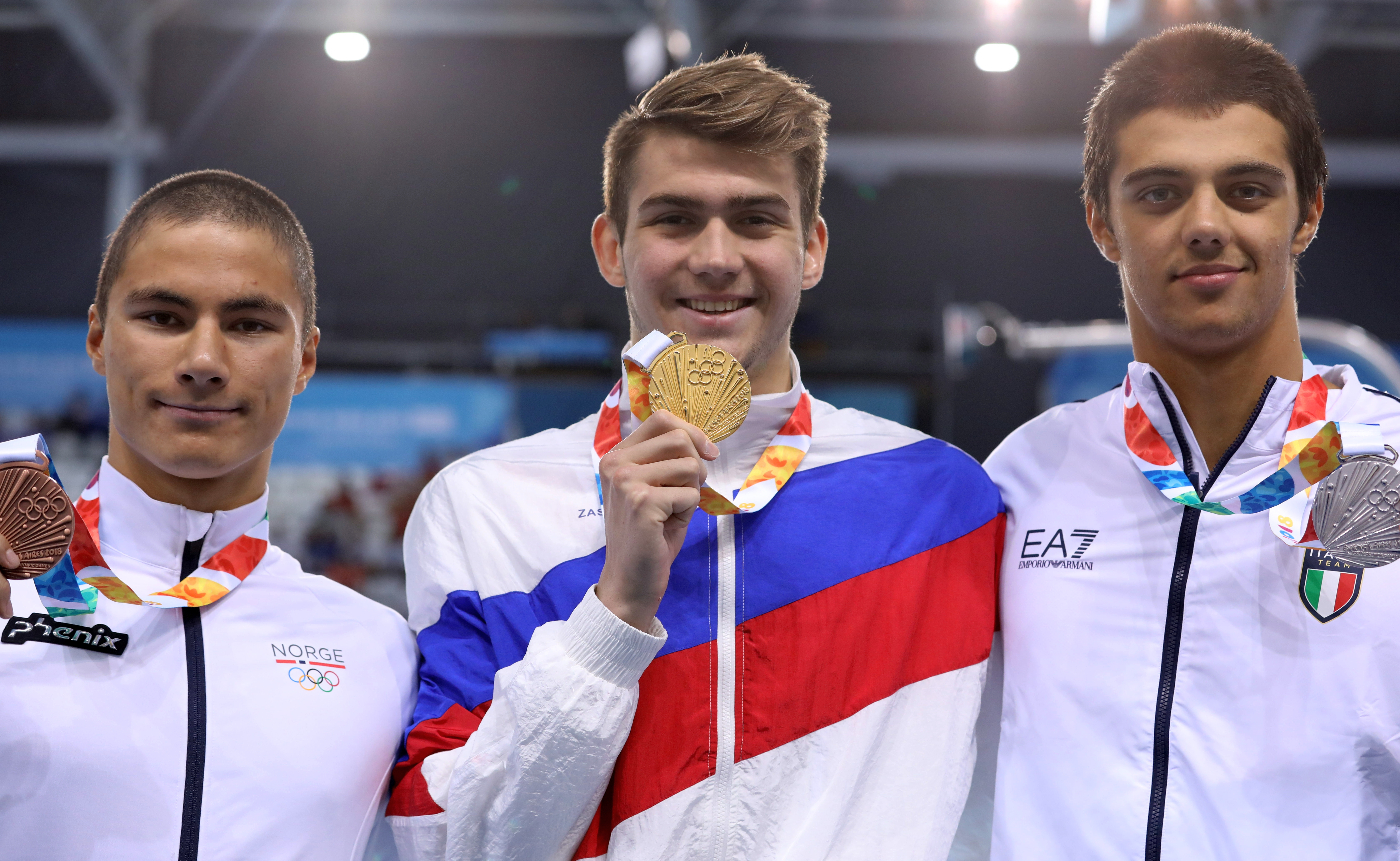 Boys' Swimming, 50 m Backstroke Final at the 2018 Summer Youth Olympics in Buenos Aires at the 10th October 2018